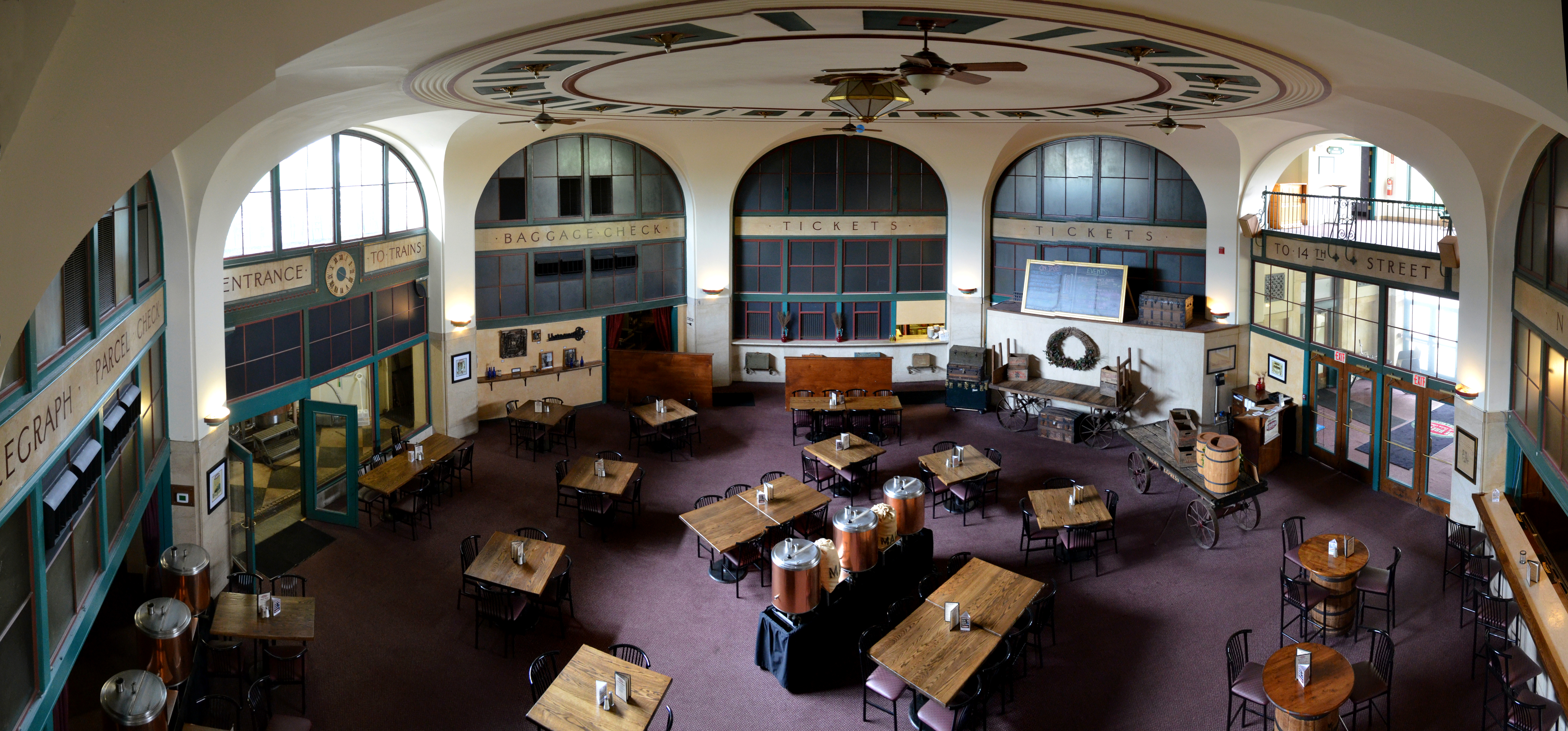 Octagonal rotunda inside Union Station in Erie, Pennsylvania, now used by a brewpub. NOTE: This image is a panorama consisting of multiple frames that were merged or stitched in software. As a result, this image necessarily underwent some form of digital manipulation. These manipulations may include blending, blurring, cloning, and color and perspective adjustments. As a result of these adjustments, the image content may be slightly different than reality at the points where multiple images were combined. This manipulation is often required due to lens, perspective, and parallax distortions.